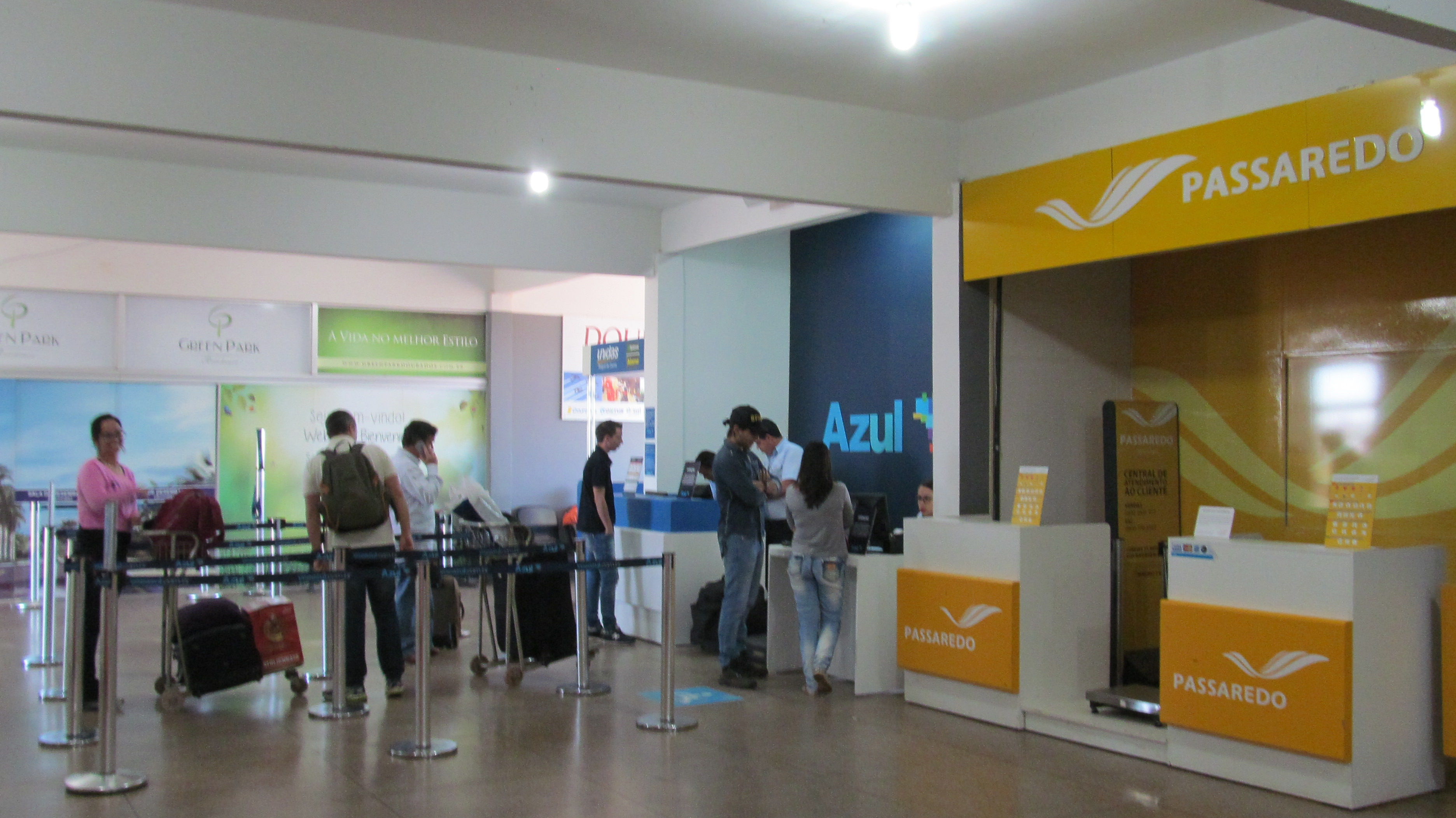 Dourados Airport (DOU) check-in, Mato Grosso do Sul, Brazil